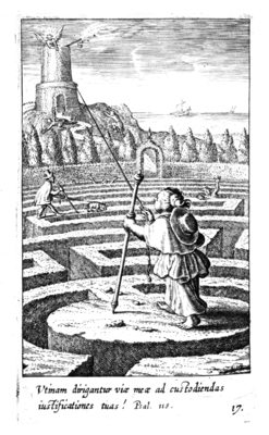 Emblem XVII from the Hermann Hugo's book Pia Desideria writen in 1624. Boëtius à Bolswert's copperplate engrave.